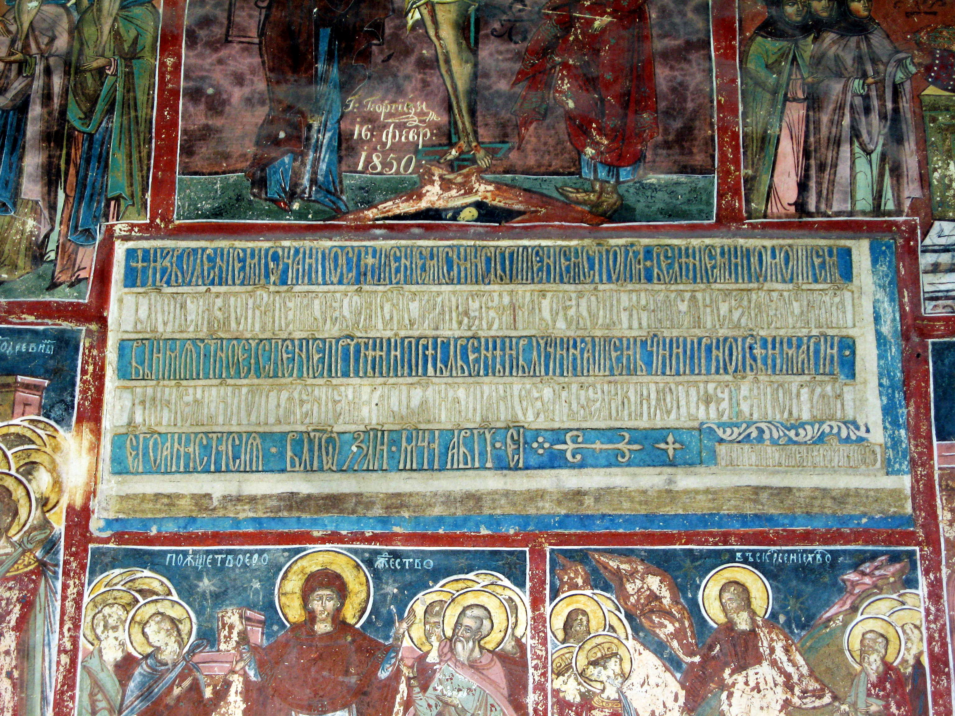 Humor Monastery